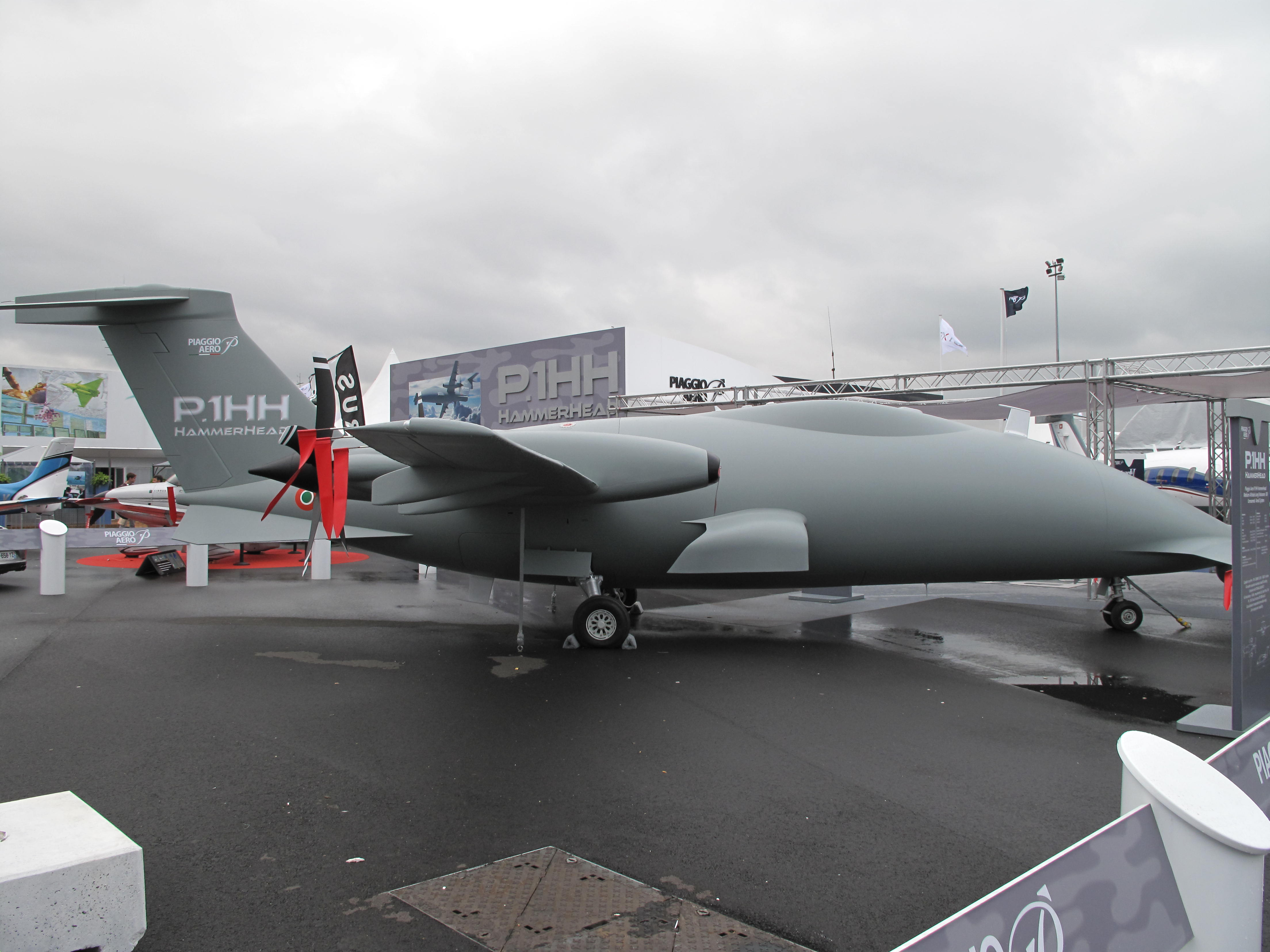 Italian UCAV Piaggio P.1HH HammerHead at Paris Air Show 2013